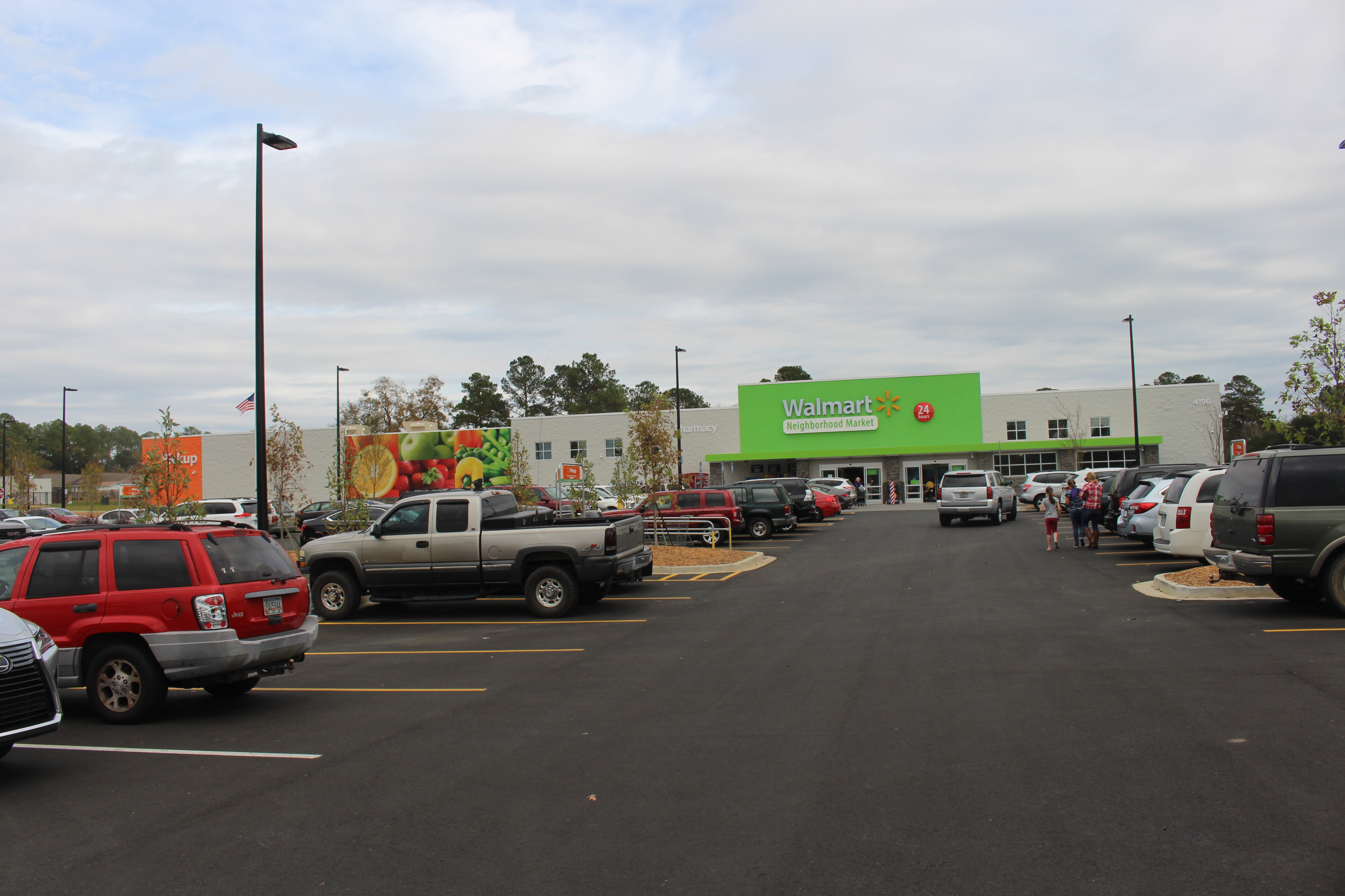 Walmart Neighborhood Market, GA125, Valdosta, Lowndes County, Georgia